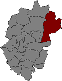 Location of Cornudella de Montsant in Priorat